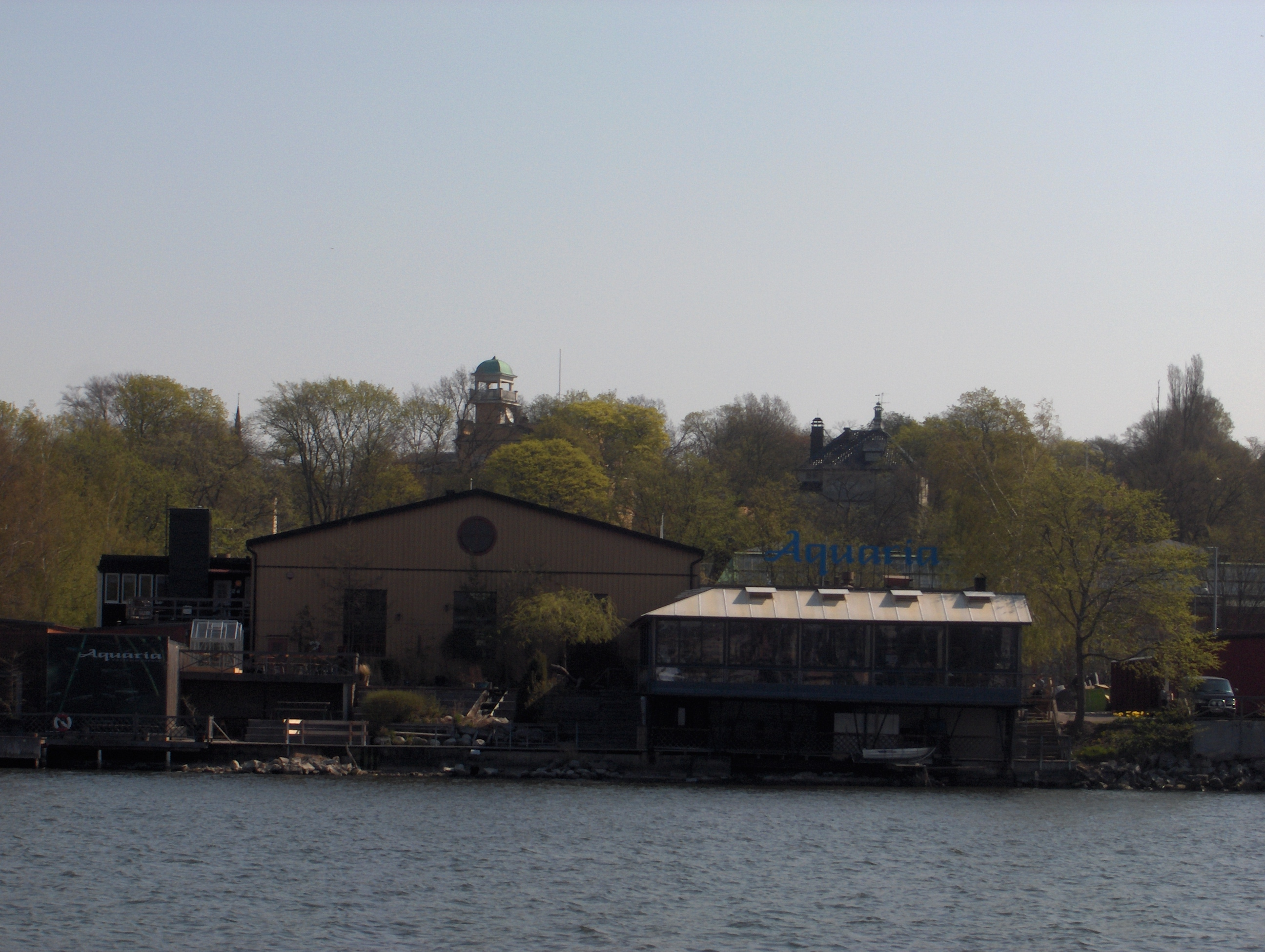 Aquaria Vattenmuseum seen from Djurgårdsfärjan in Stockholm. Photographed by me in spring 2008.